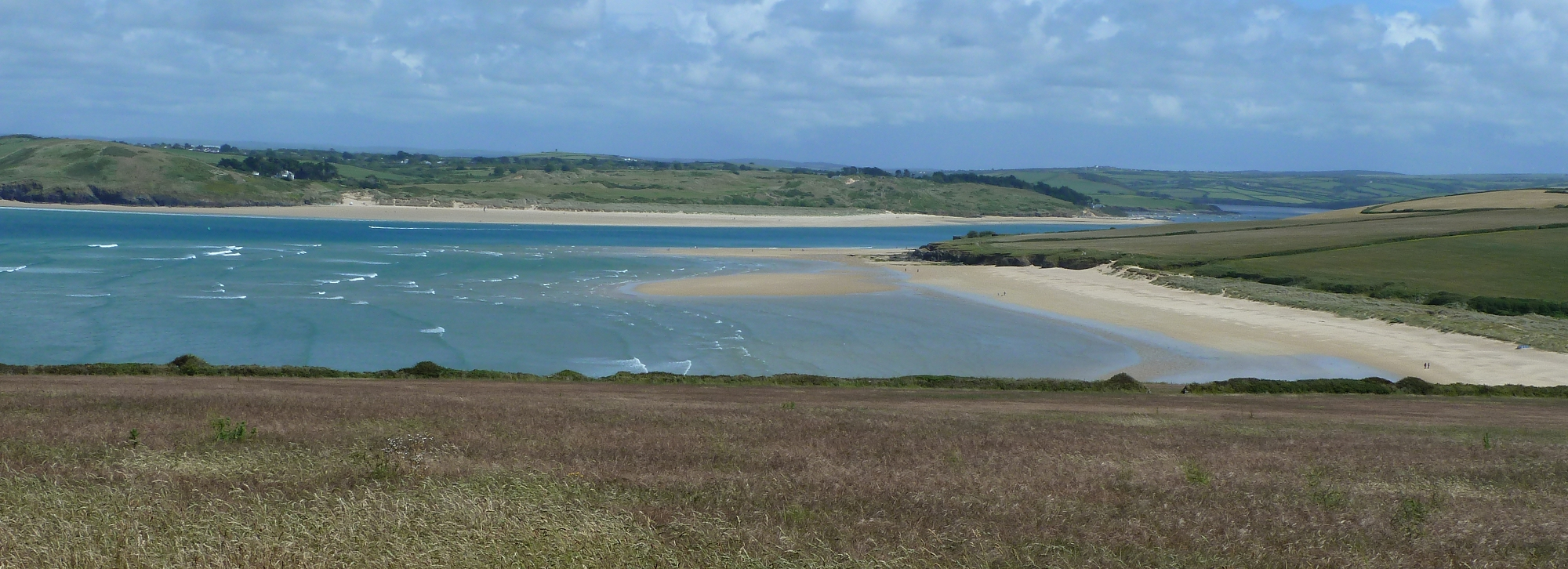 A cropped version of File:Doom Bar from Hawker's Cove 2.JPG